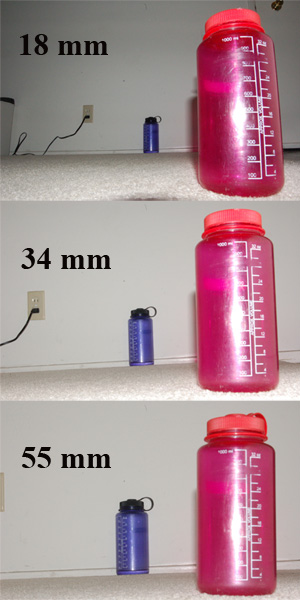 How changing the shooting point along with changing of focal length affects photograph composition. One subject remains the same size, while the other changes size.